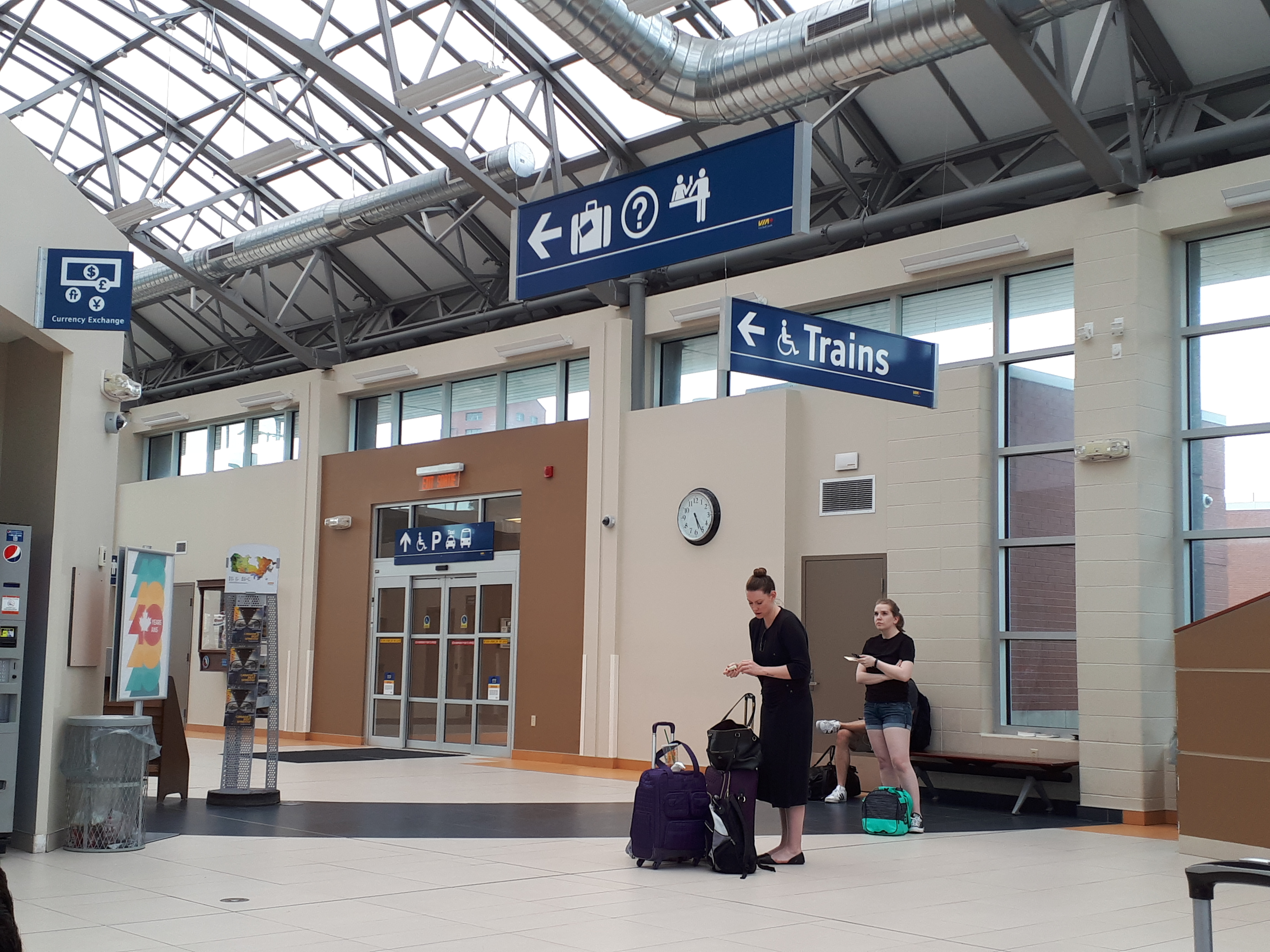 Inside the waiting area